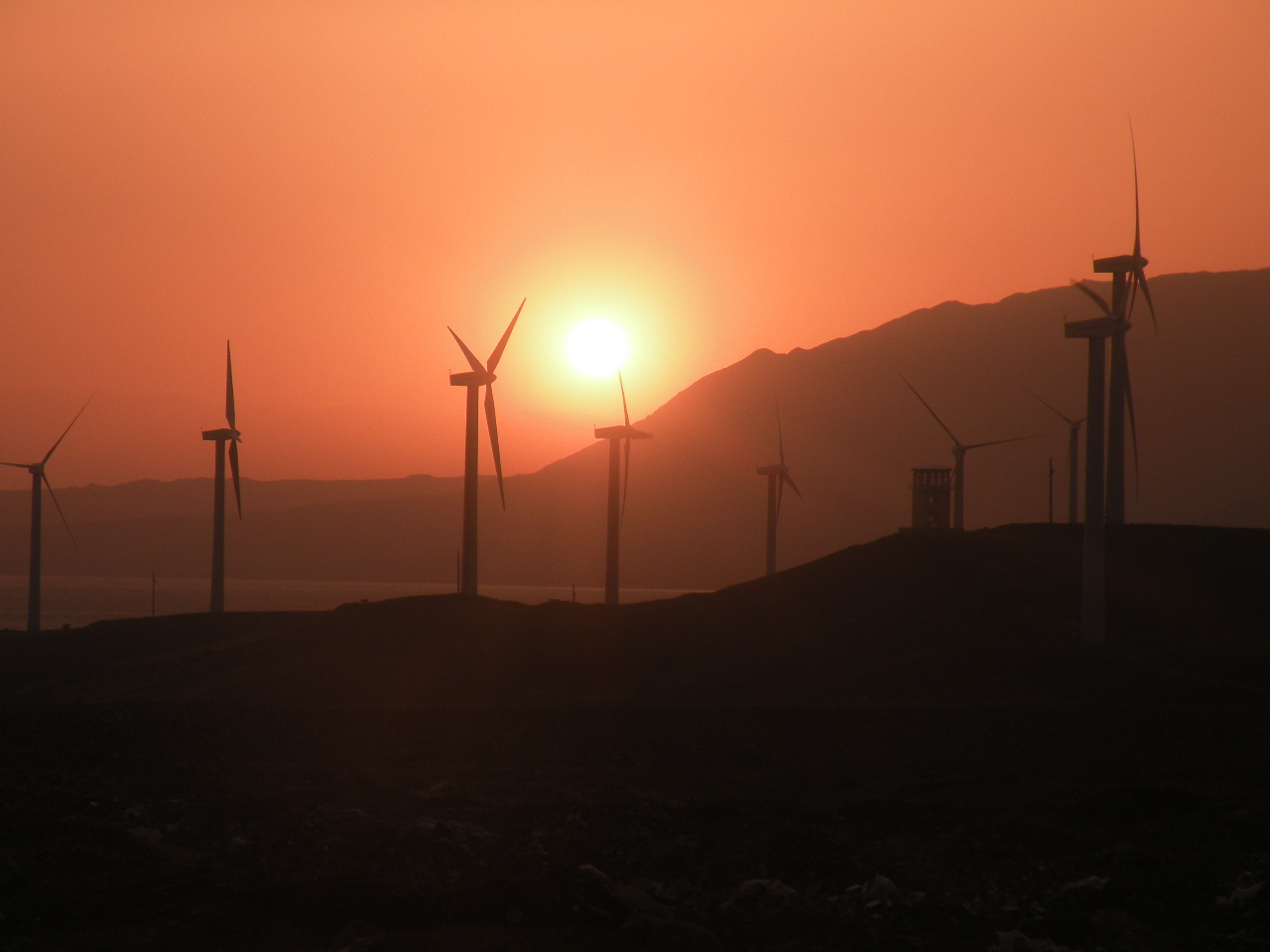 شهر منجیل - فرستنده - منجیل نیوز